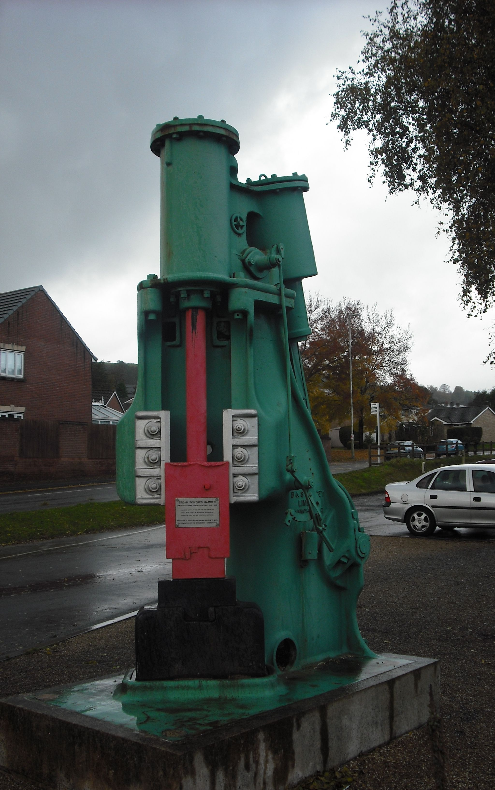 Massey steam hammer at Griffithstown Railway Museum